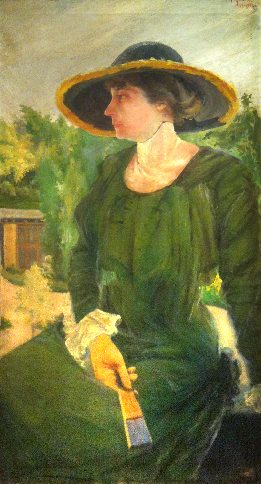 Paintings exhibited at La Mirada persistent exhibit in Figueres